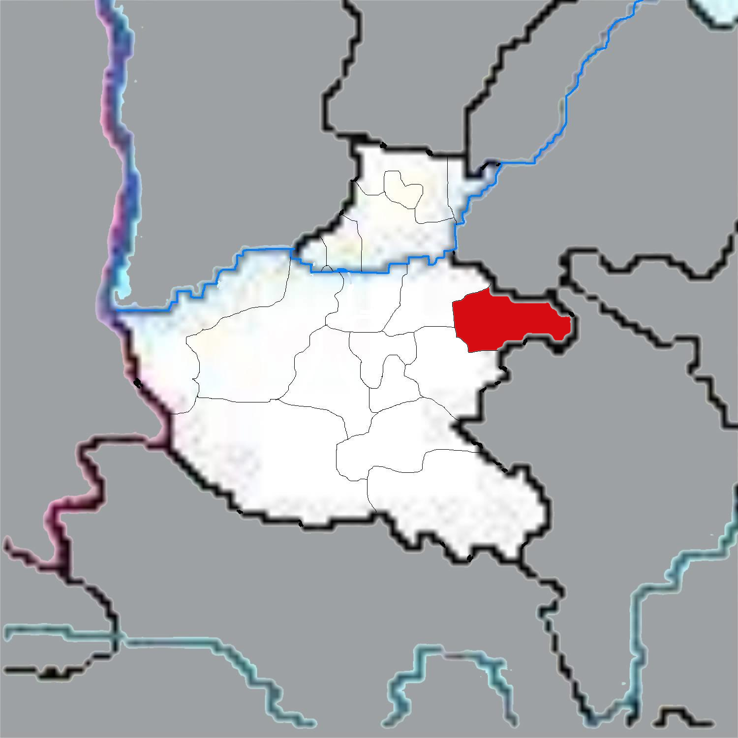 Maps of Henan Province of China